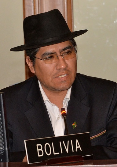 Embajador Diego Pary